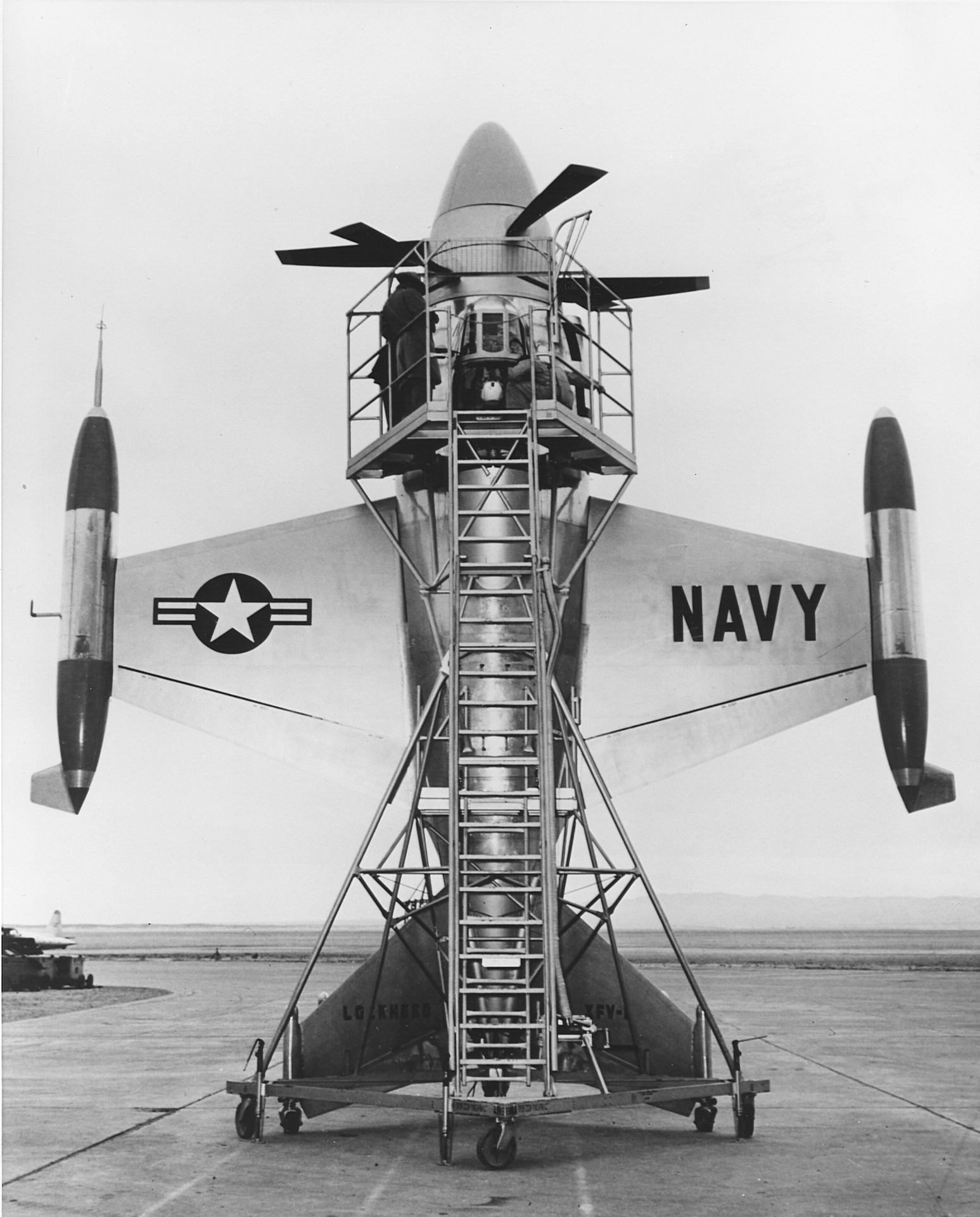 The U.S. Navy Lockheed XFV-1 at Edwards Air Force Base, California (USA).